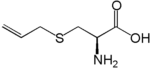 chemical structure of allyl cysteine